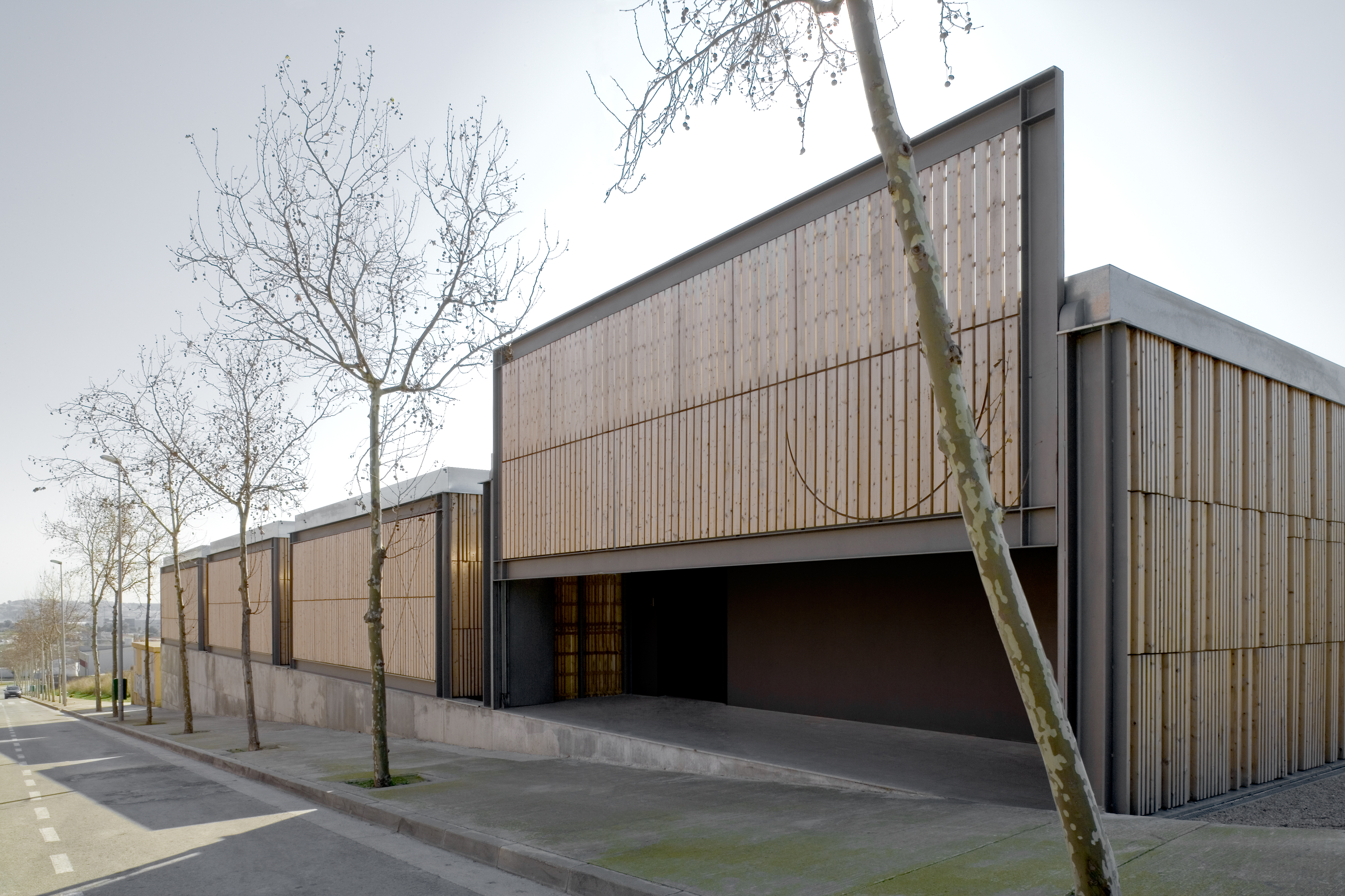 Entrance of the Garraf Historical Archive in 2009